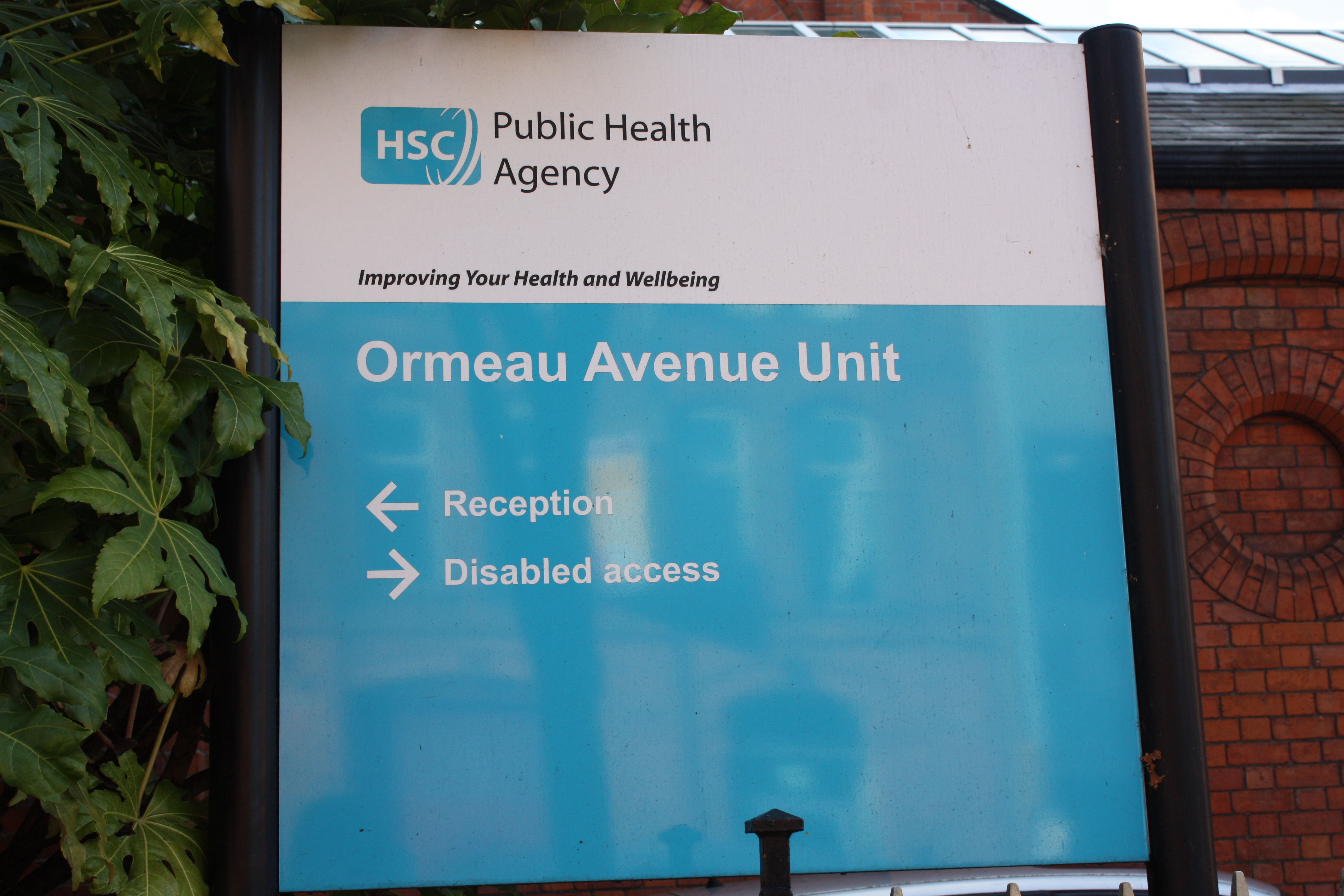 Public Health Agency, Ormeau Avenue, Belfast, Northern Ireland, October 2010